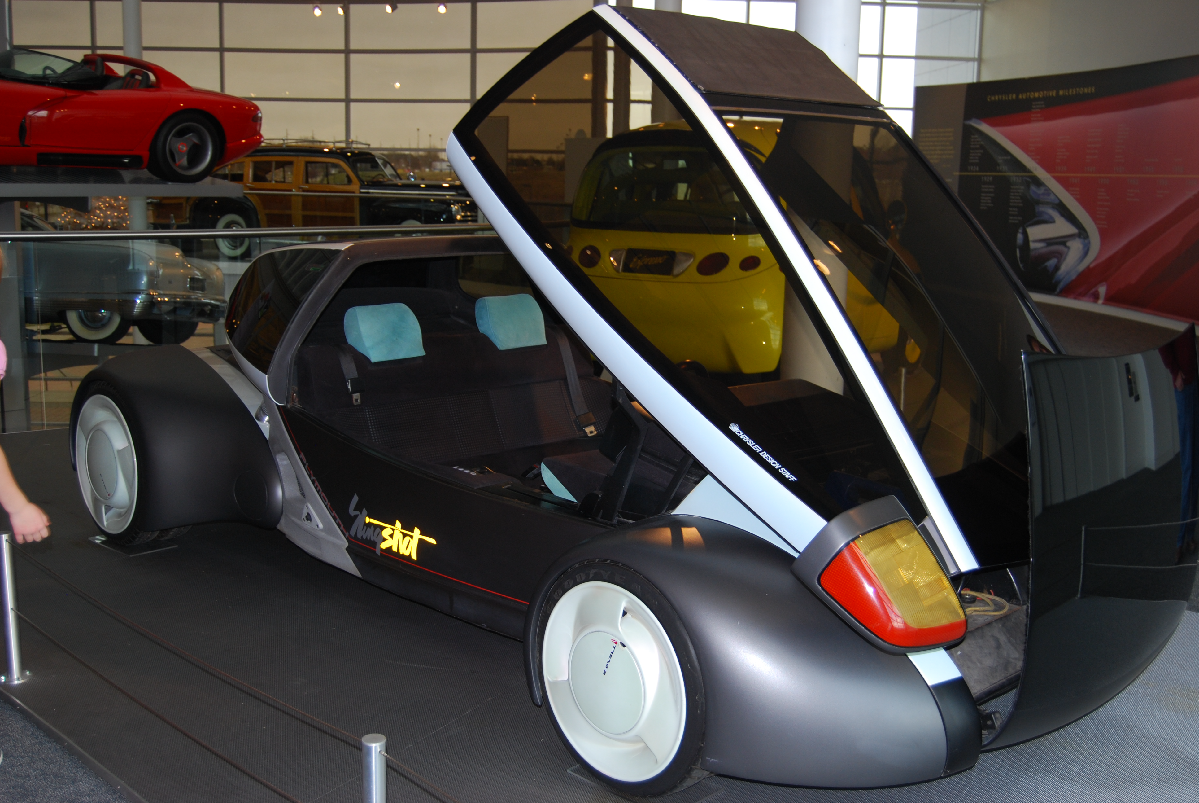 The 1988 Plymouth Slingshot's Pivoting Canopy